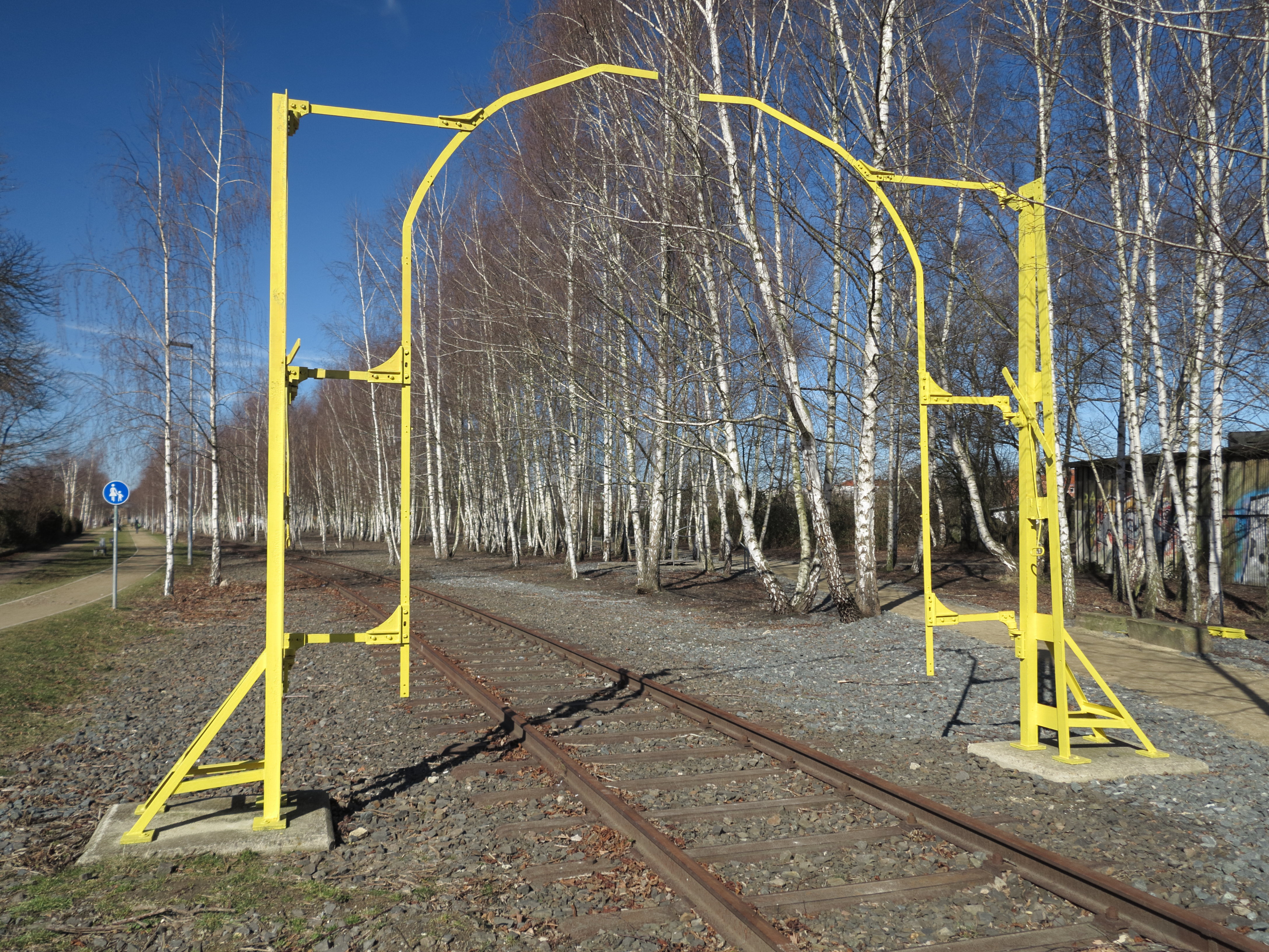 This loading gauge in Brunswicks Westbahnhof was used to check fright trains for load measure transgressions.